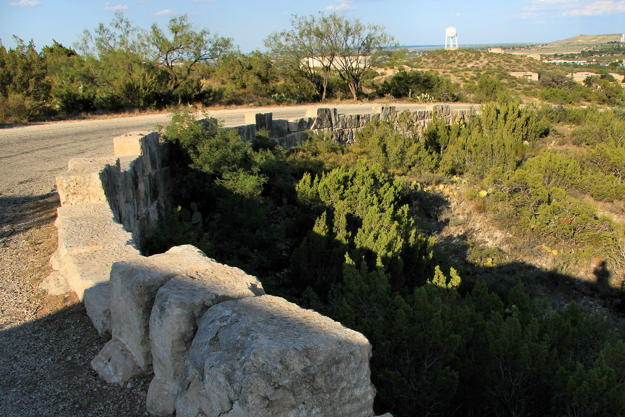 Park Road 8 in Big Spring State Park. The Civilian Conservation Corps built the road between 1934 and 1935. The limestone blocks were quarried on site. Some of the blocks weigh two tons.